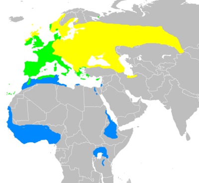 Range map of Sylvia atricapilla, based on Baker, Kevin (1997) Warblers of Europe, Asia and North Africa (Helm Identification Guides), London: Helm, p. 102 ISBN: 0-7136-3971-7. Mason, C F (1995) The Blackcap (Hamlyn Species Guides), London: Hamlyn, p. 16 ISBN: 0600580067. Simms, Eric (1985) British Warblers (New Naturalist Series), London: Collins, p. 68 ISBN: 0-00-219810-X. Base map is File:BlankMap-World-large.png